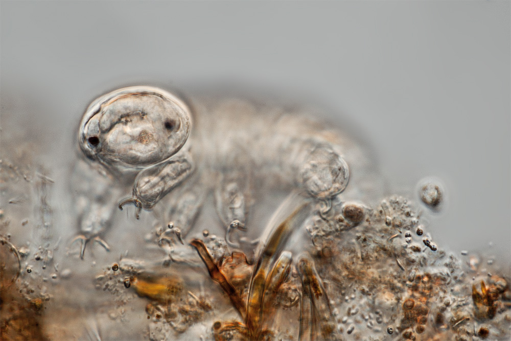 Tardigrades (commonly known as waterbears or moss piglets)